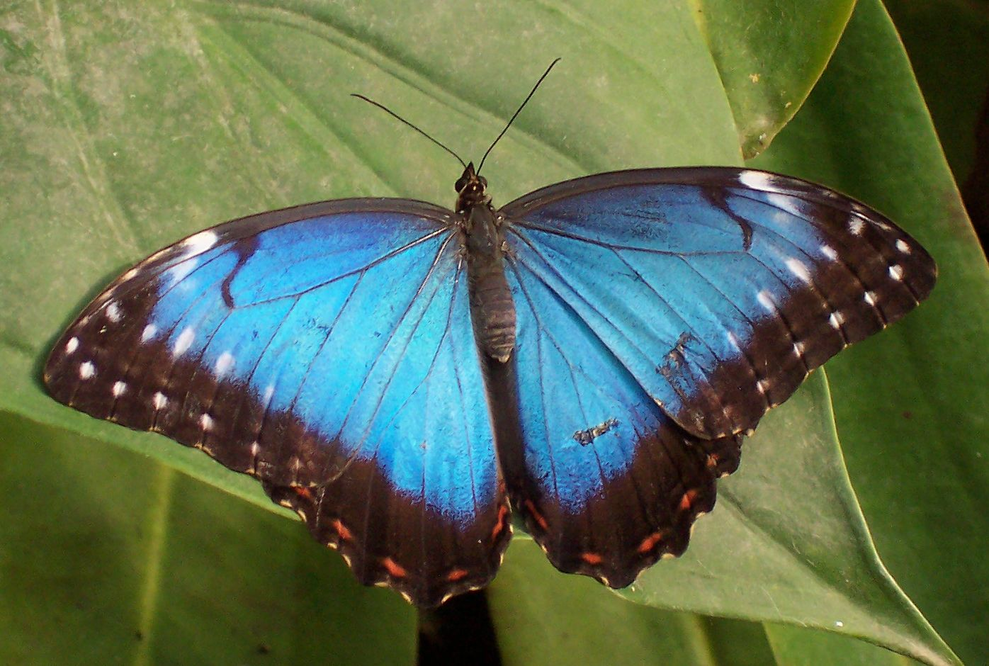 Tropical Butterfly, identified as Morpho peleides (Blue Morpho). Wingspan is roughly about 10-15 cm